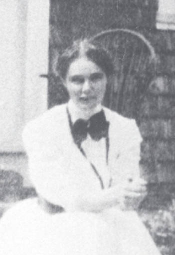 Grace Helen Mowat in a white dress with scarf smiling at camera.